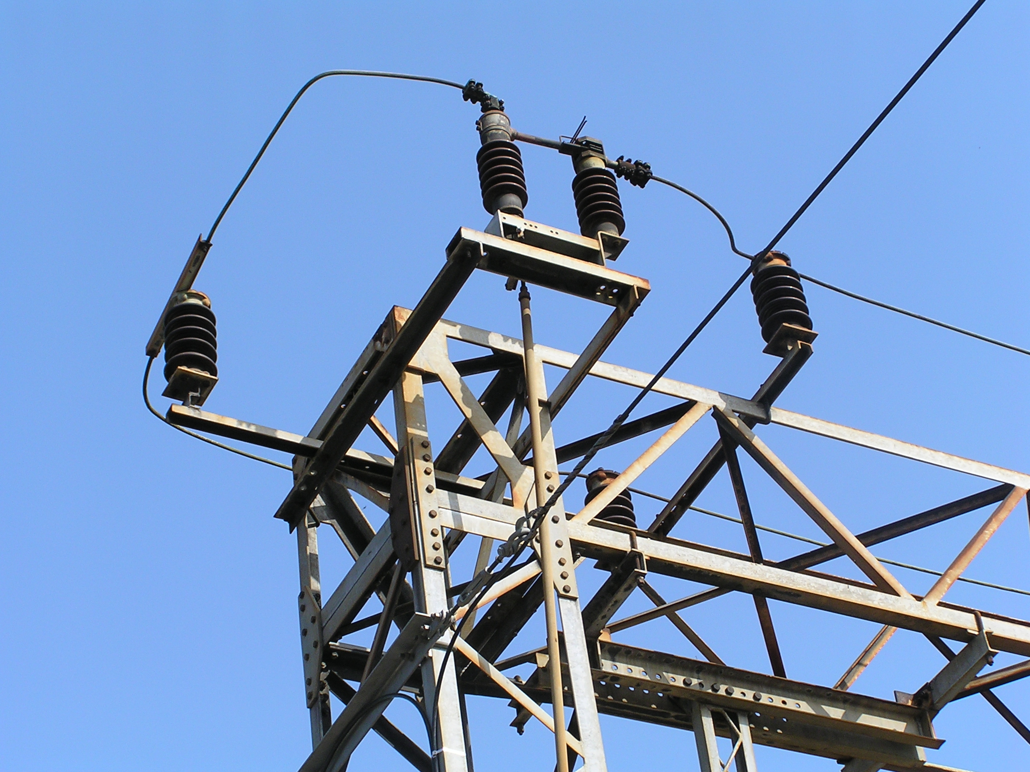 High voltage switchgear, as used on the Croatian railway (Hrvatske Željeznice) for a section of railway overhead electrification. Nova Gradiška railway station, northern part electrification.